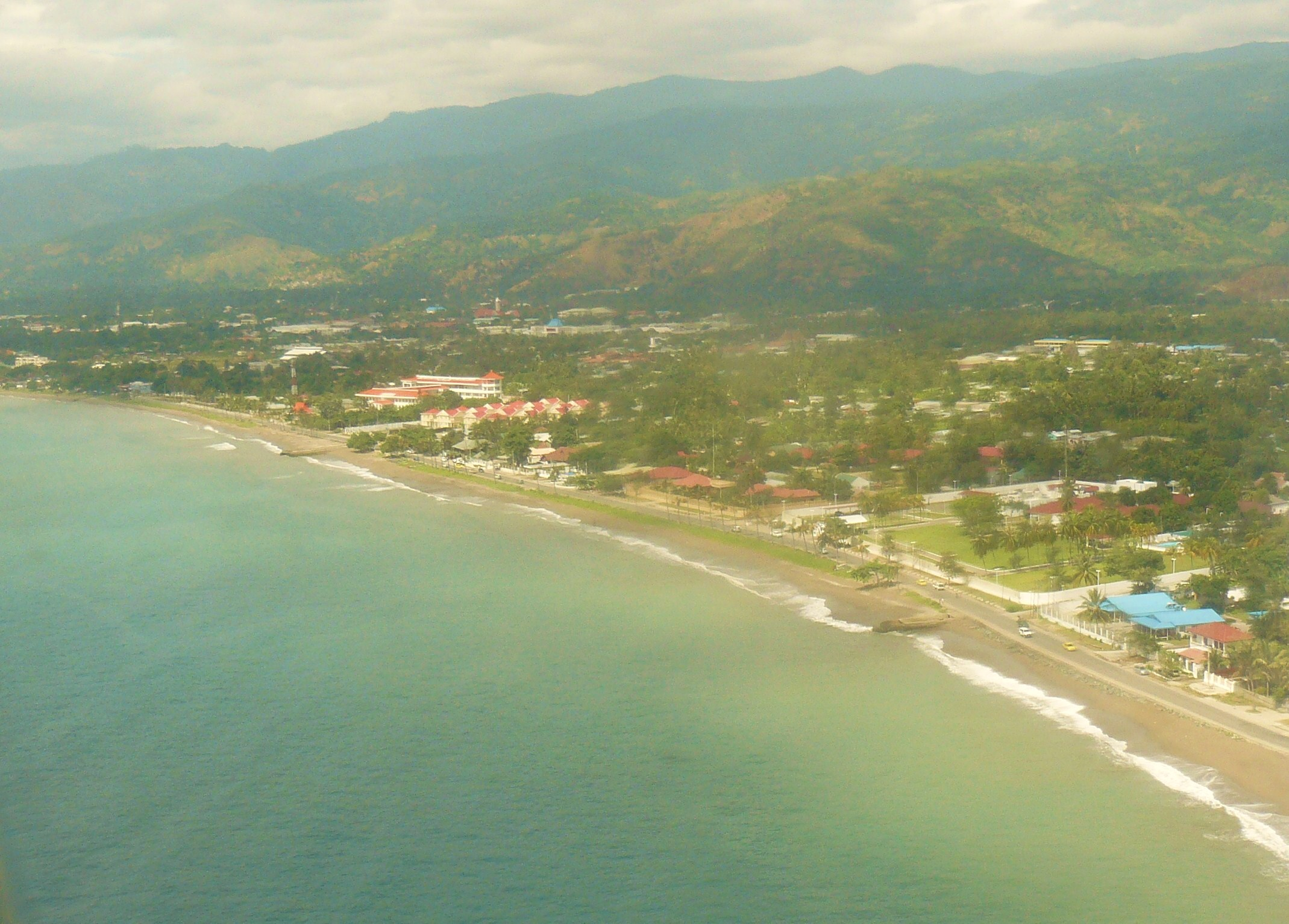 Dili from the air